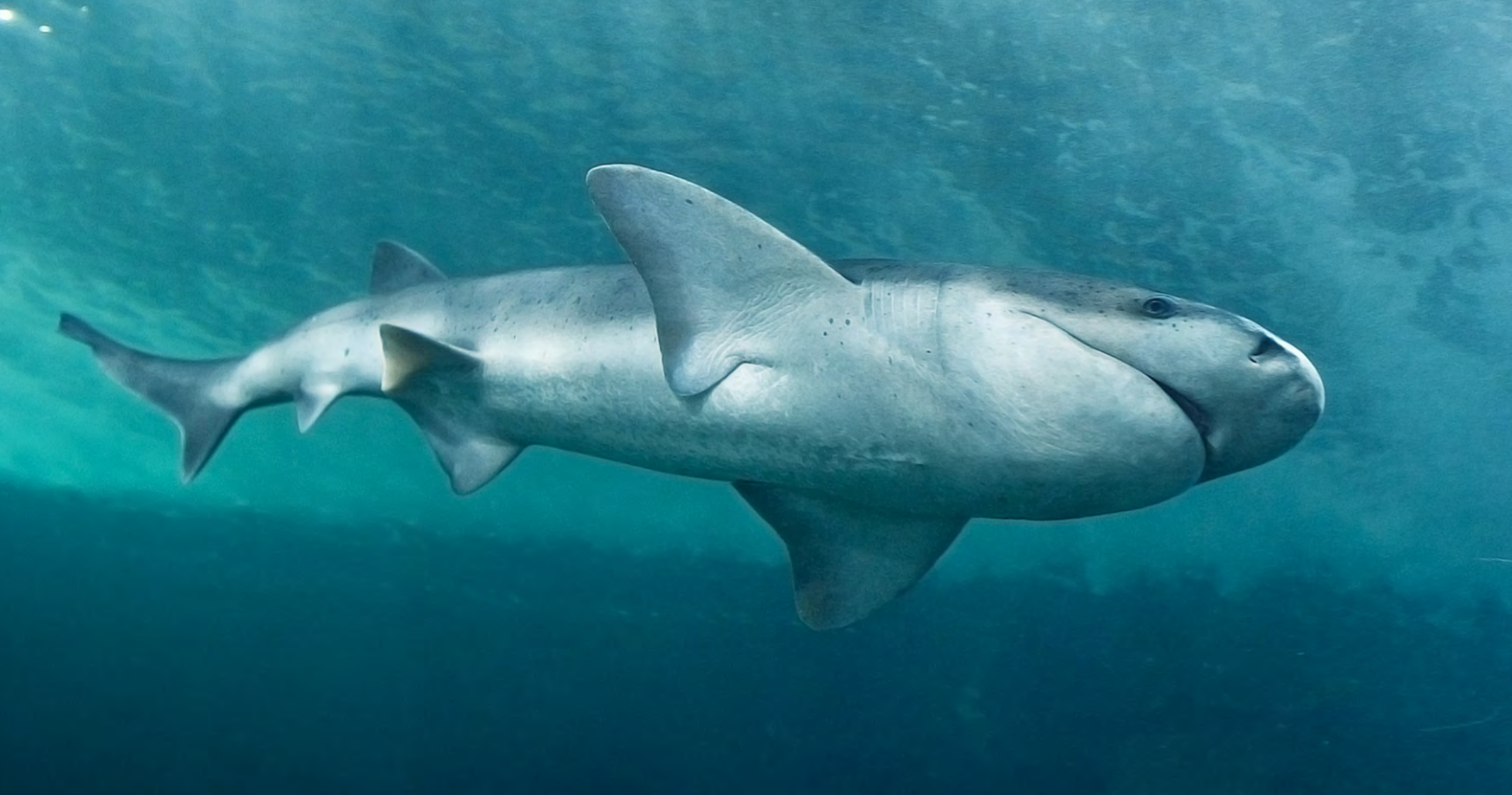 A broadnose sevengill shark (Notorynchus cepedianus) in the Aquarium of the Bay